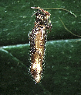 female Argyrodes cylindratus from Okinawa.